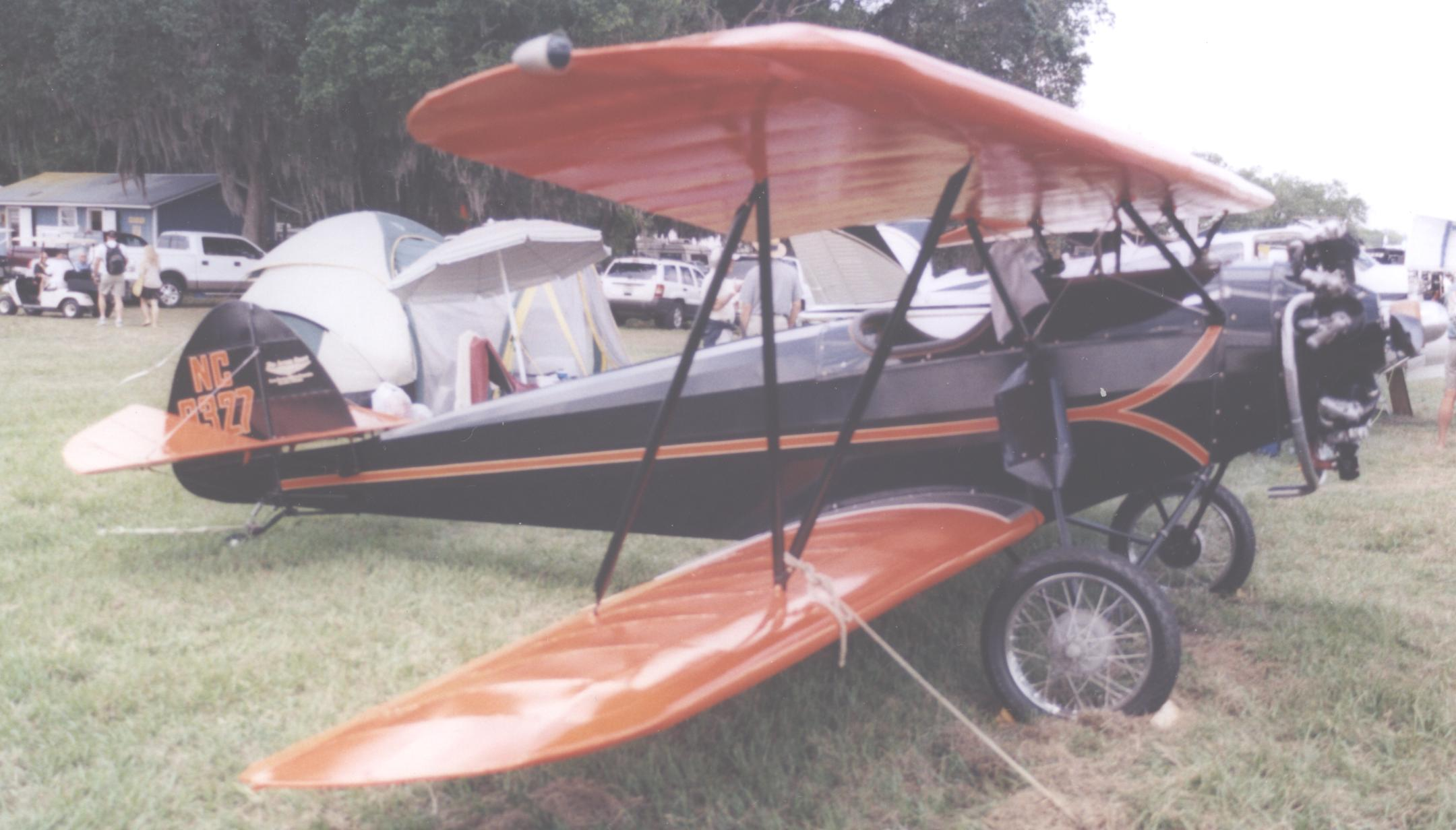 Arrow Sport biplane of 1928 at Lakeland, Florida